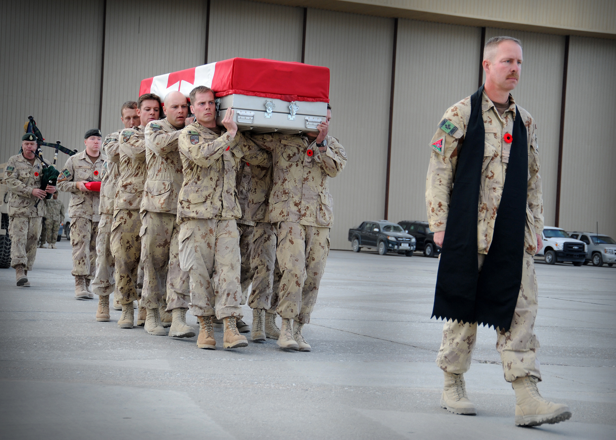 A cadre of Canadian service members, led by a chaplain, carry the transfer case of Master Corporal Byron Greff, 3rd Battalion Princess Patricia's Canadian Light Infantry, to a C-130 on Bagram Air Field during a ramp ceremony Oct. 31, 2011. Greff was killed in an Oct. 29 Taliban attack when a vehicle packed with explosives rammed into the armored passenger Rhino Greff was traveling in. Greff served as a NATO Training Mission adviser and instructor, developing trainers to educate Afghan Army service members. Approximately 920 Canadian Forces personnel serve in advisory and support roles at training camps and headquarters locations primarily in the Kabul area. Smaller contingents serve at training institutions in Mazar-e-Sharif in northern Afghanistan and in Herat in western Afghanistan. The mission's mandate extends to March 2014. (U.S. Air Force photo by Senior Airman Kat Lynn Justen)